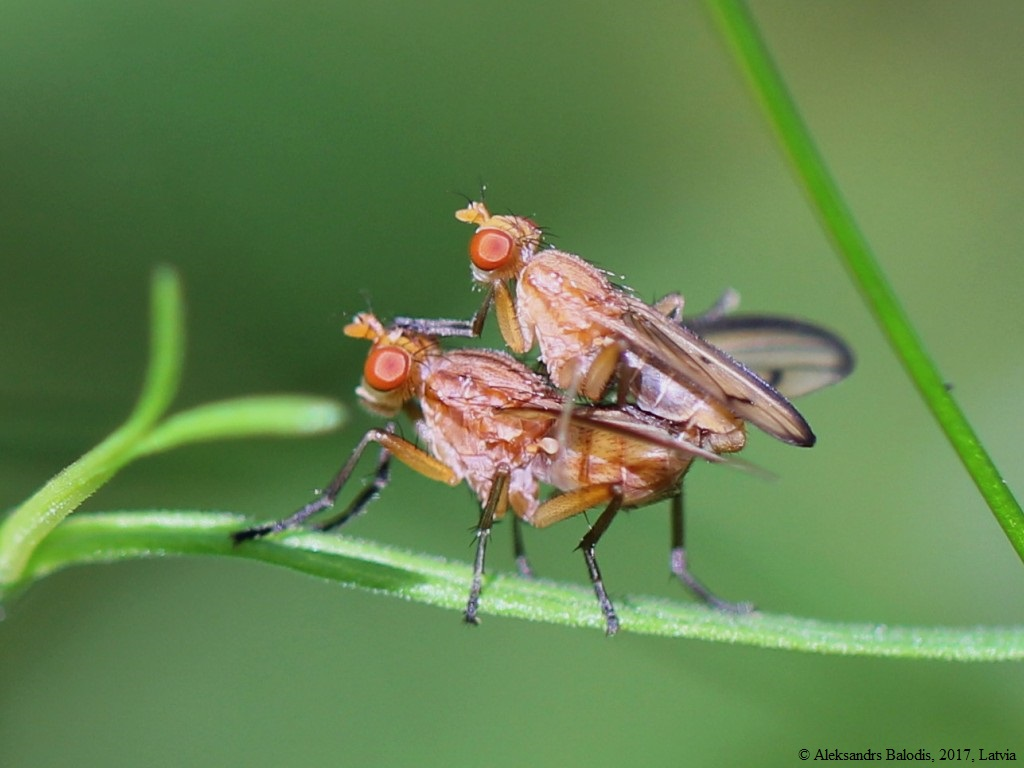 Tetanocera phyllophora